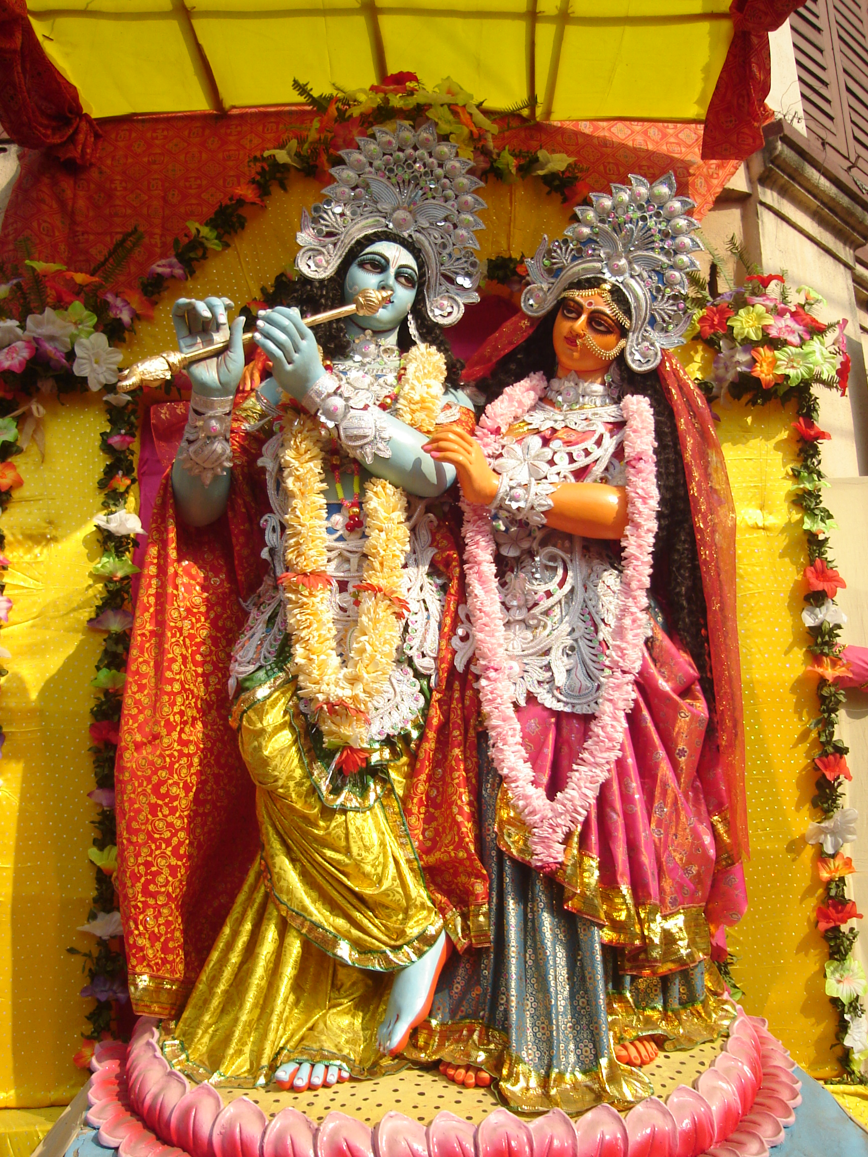 Radha and Krishna idol for Raas festival display at a Jagaddhatri Puja pandal in Kolkata